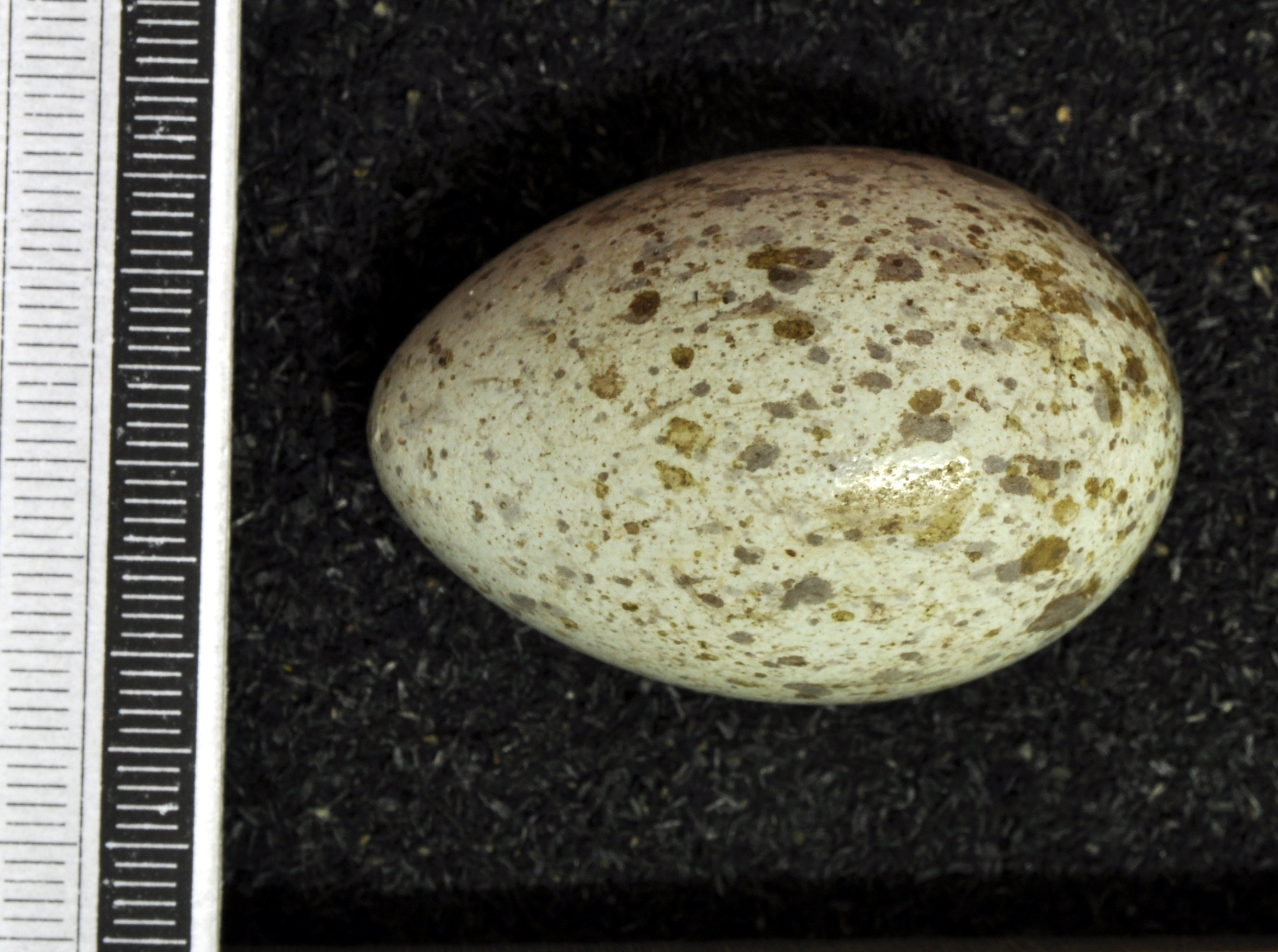 Carrion crow Corvus corone , egg, Coll. Museum Wiesbaden